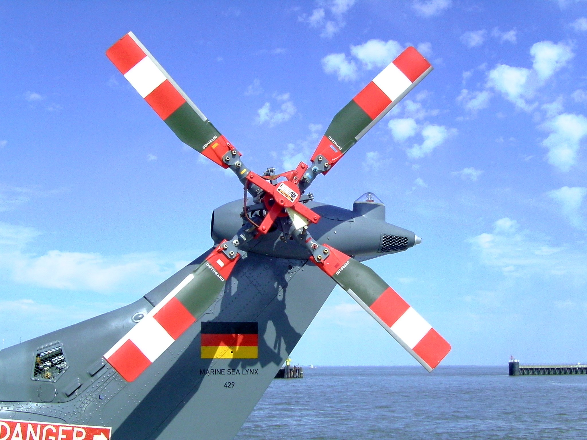 Tail rotor of a Sea Lynx MK 88 A helicopter of the German Navy